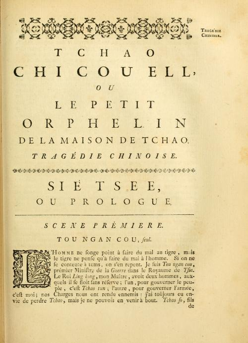 This is a page of Joseph Henri Marie de Prémare's L'Orphelin de la Maison de Tchao, as published in Jean-Baptiste Du Halde's Description Géographique, Historique, Chronologique, Politique, et Physique de l'Empire de la Chine et de la Tartarie Chinoise (1736). Prémare's work is a French translation of the 13th-century Chinese original The Orphan of Zhao (趙氏孤兒) by Ji Junxiang.